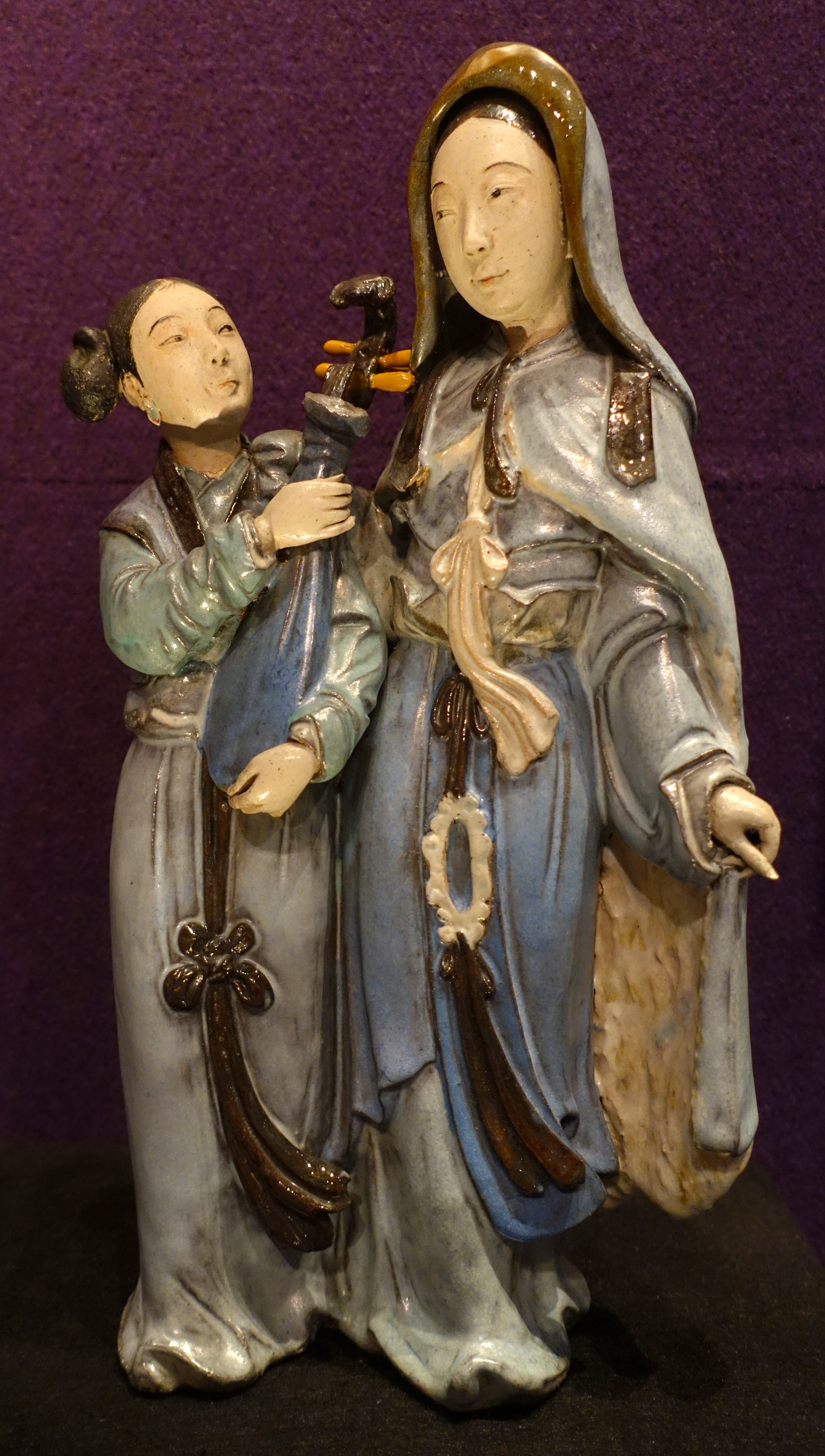 Wang Zhaojun Marrying a Tribal Ruler, by Chen Wei Yan (died 1926), China, Shiwan ware - Hong Kong Museum of Art, Hong Kong. This artwork is in the public domain because the artist died more than 70 years ago. Note: although the museum did not permit photography of most items in the museum, it explicitly permitted photography of this particular object (both in signage and when I asked a guard). Thus there are no restrictions on use of this image.